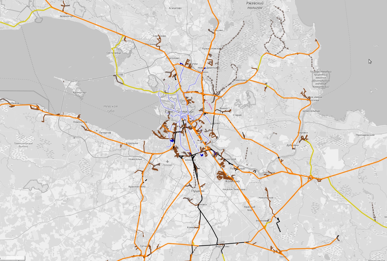 Saint Petersburg railways from OpenRailwayMap This map may be incomplete, and may contain errors. Don't rely solely on it for navigation.